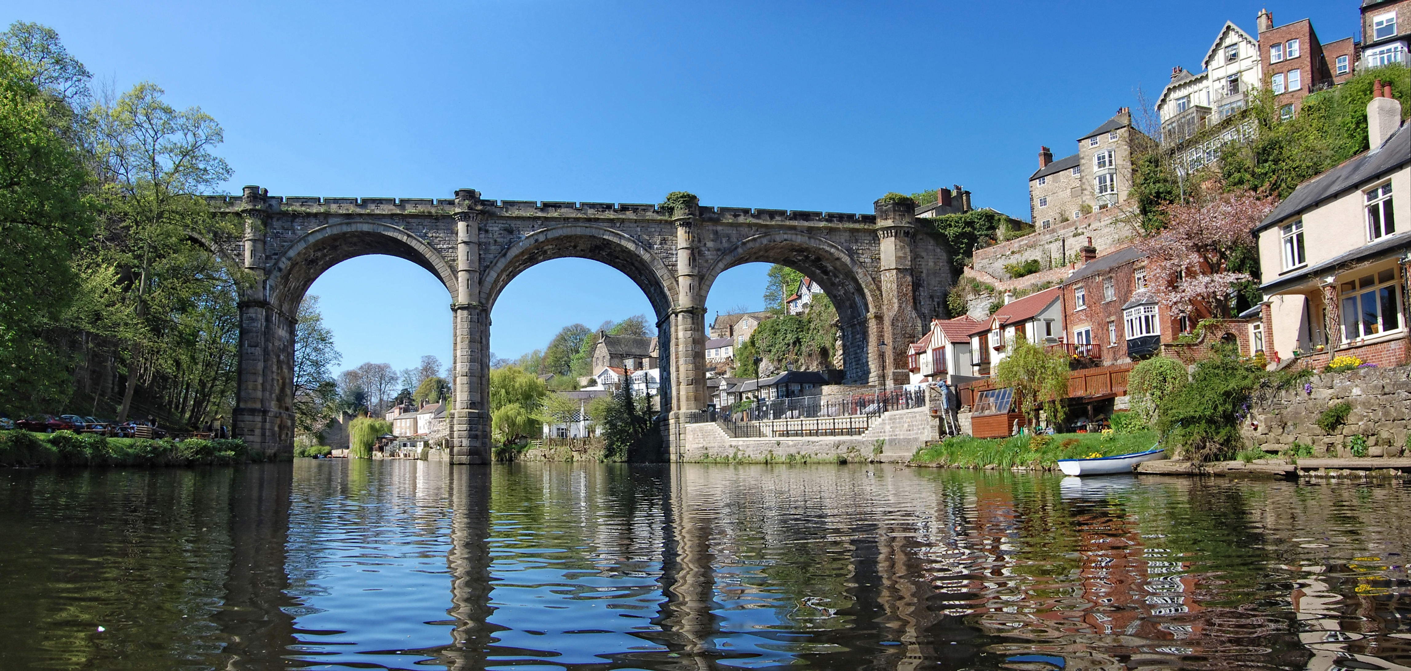 Knaresborough is a historic market and spa town in North Yorkshire, England, four miles east of Harrogate. This elegant stone viaduct over the River Nidd was completed in 1851 and built through the picturesque town to carry a branch of the Leeds & Thirsk Railway. The four-span bridge stands 78ft high above the water, each span measuring 56ft 9in across. The viaduct was designed to blend with the architecture and character of the town, and its engineer (Thomas Grainger, who also worked on the Arthington Viaduct certainly achieved that goal.